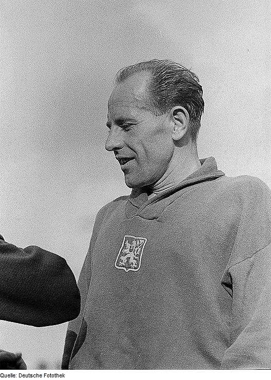 Original image description from the Deutsche Fotothek Emil Zátopek